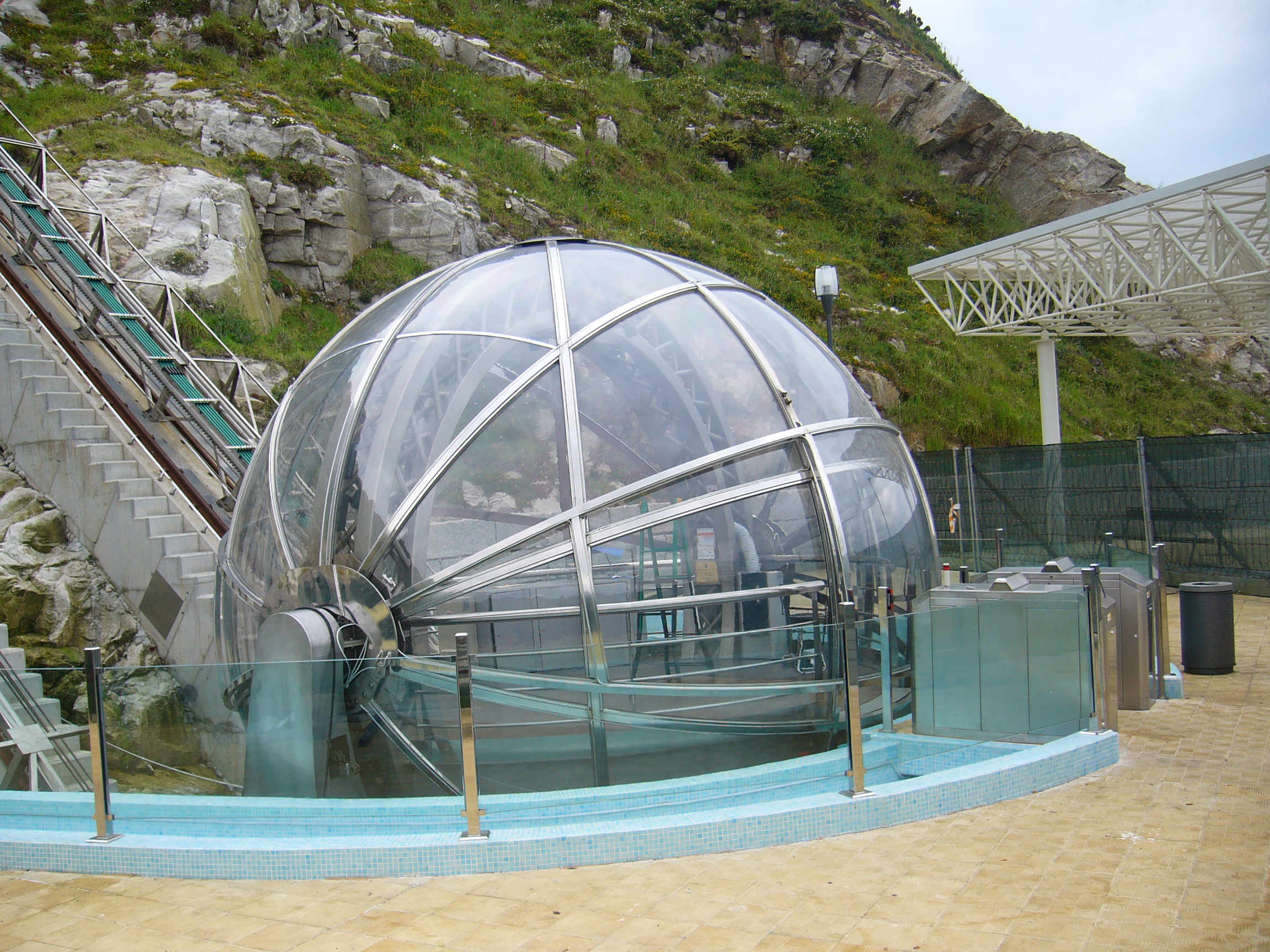 Elevator in San Pedro's Mount, in Corunna, Spain.